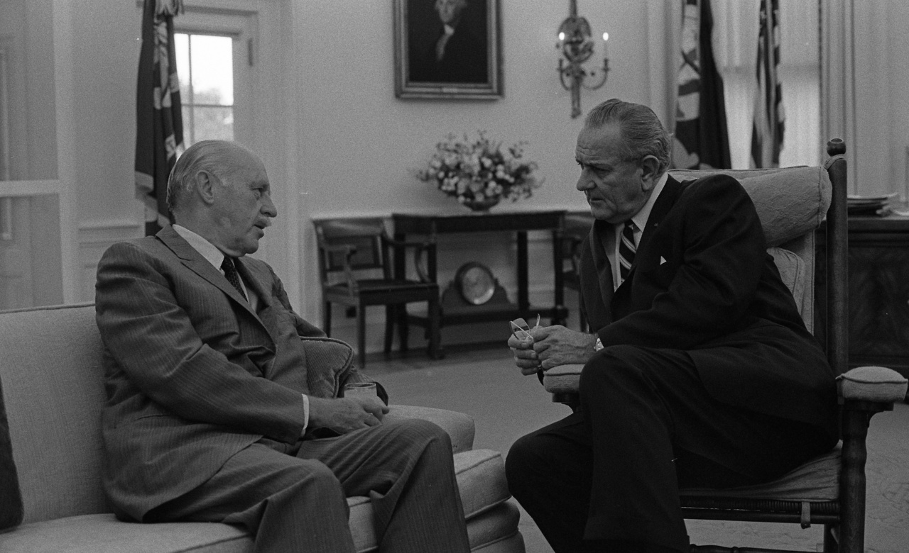 President Lyndon B. Johnson (r.) speaks with journalist Drew Pearson in the Oval Office